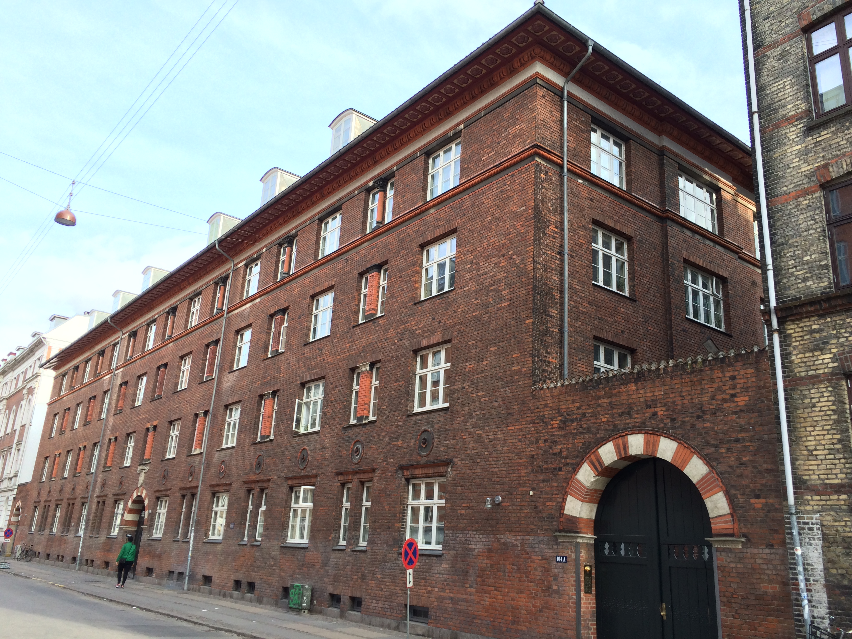 Soldenfeldts Stiftelse, Sortedam Dossering and Ryesgade, Copenhagen, Denmark